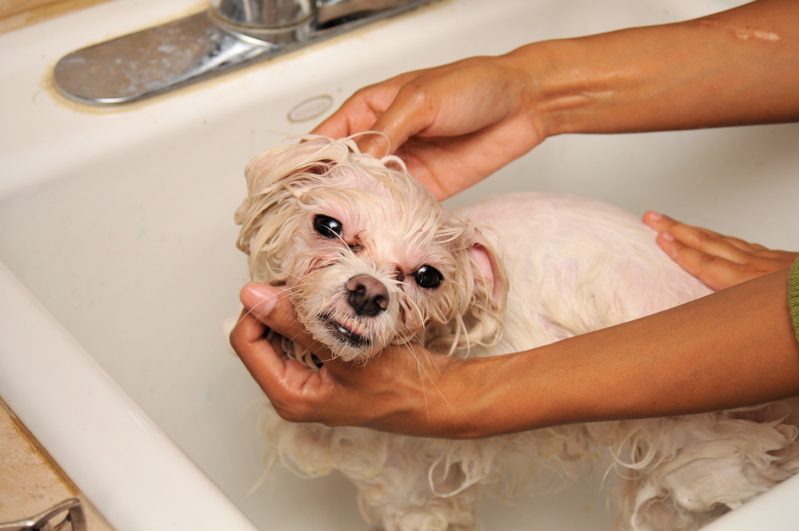 Washing a dog in a bath tub